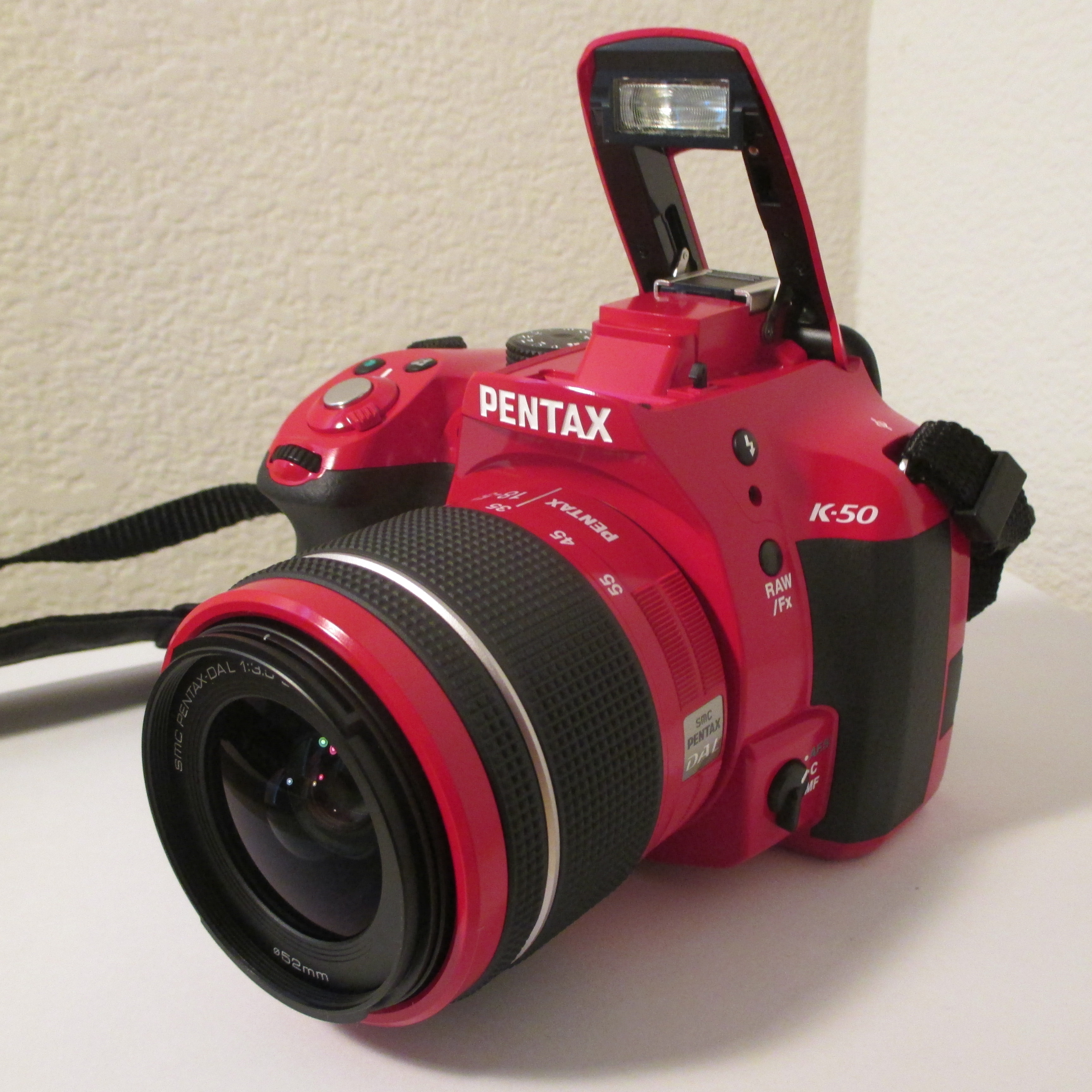 The Pentax K-50 digital SLR camera. Shown with pop-up flash in the up position.